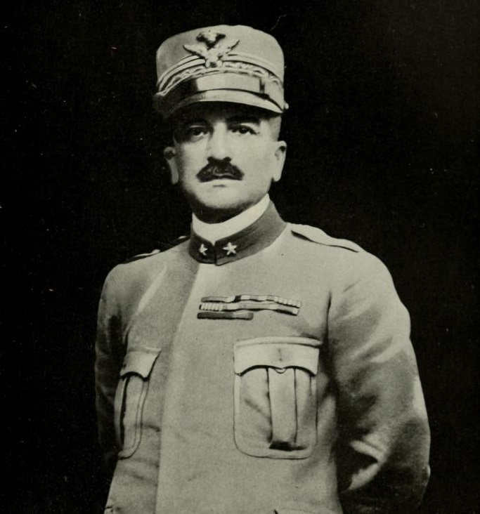 Portrait of Armando Diaz